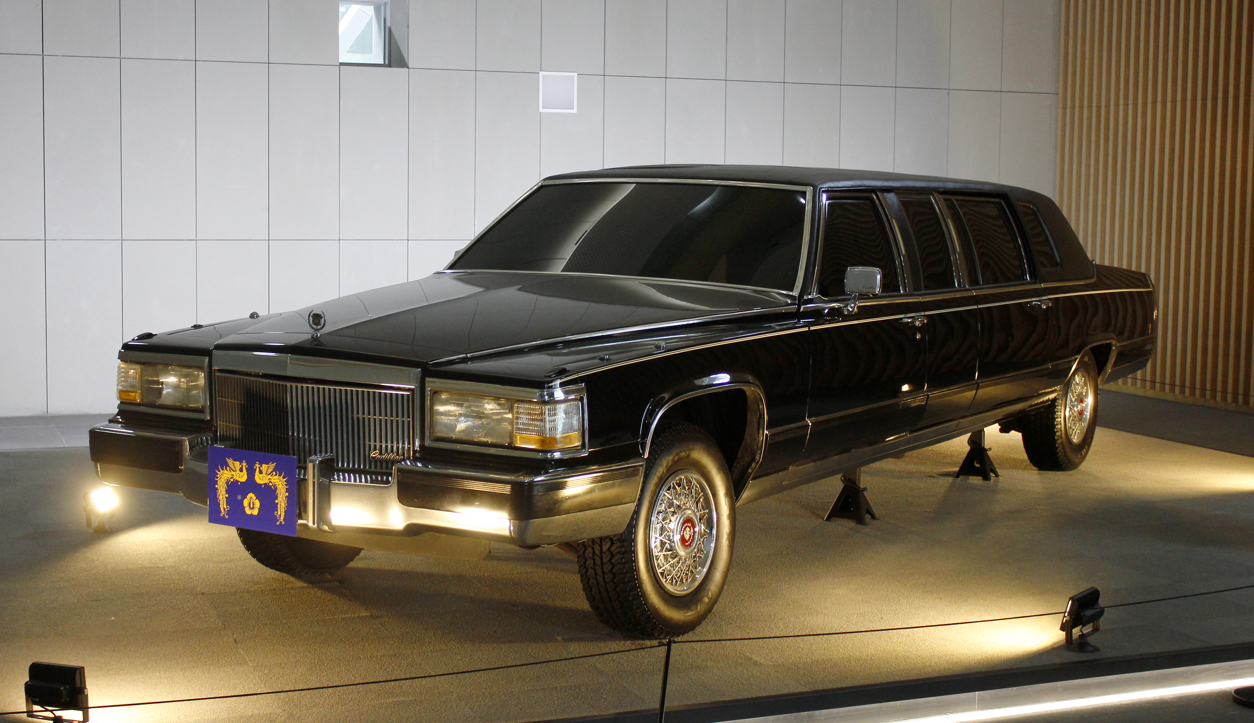 Former South Korean presidential car, 1992 Cadillac de Ville @Presidential Archives